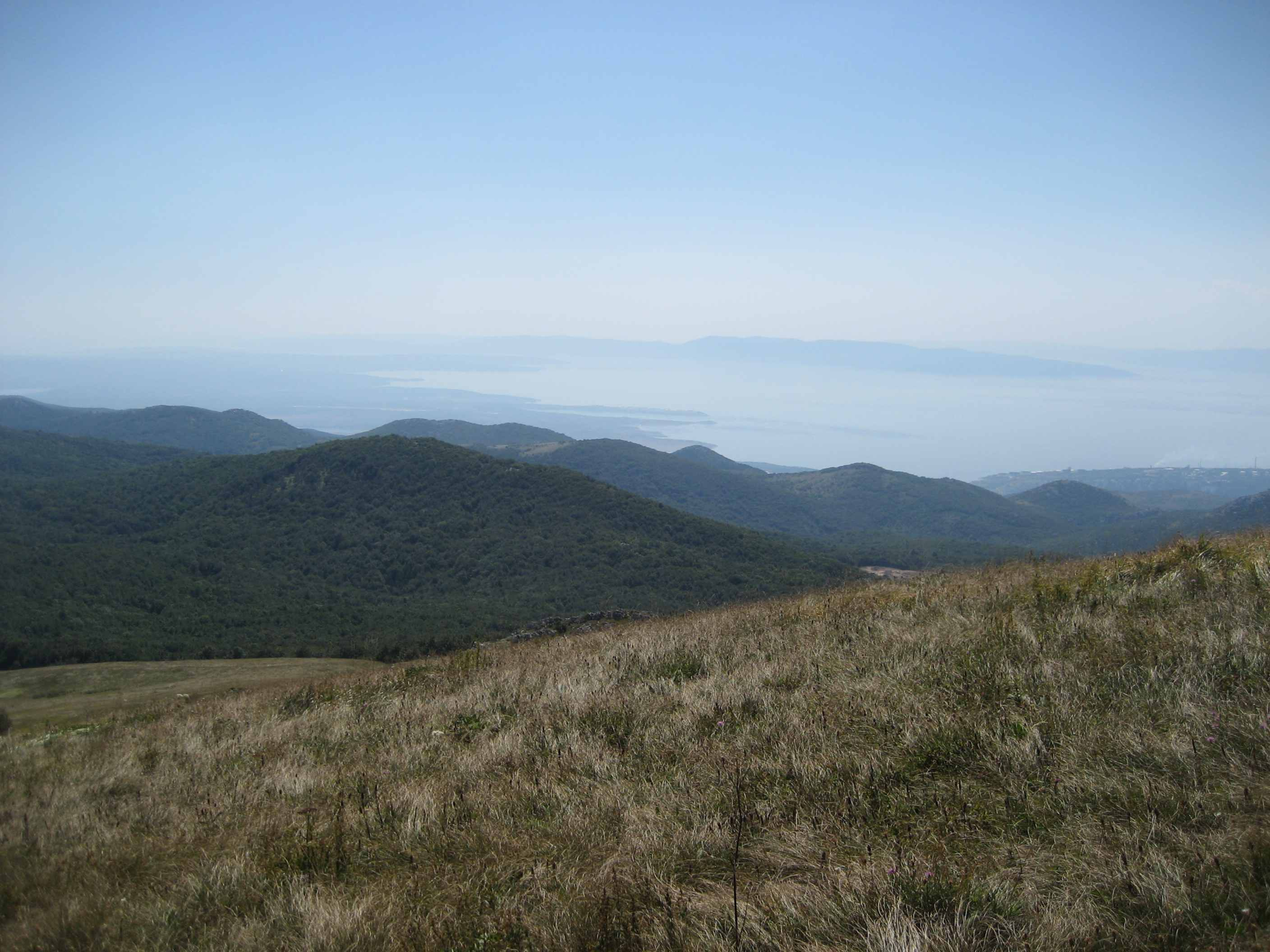 Gorsk1-Kotar0808, Croatia